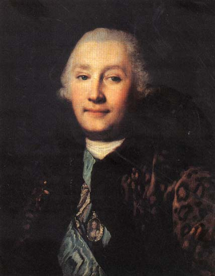 Portrait of Grigory Orlov (1734–1783)